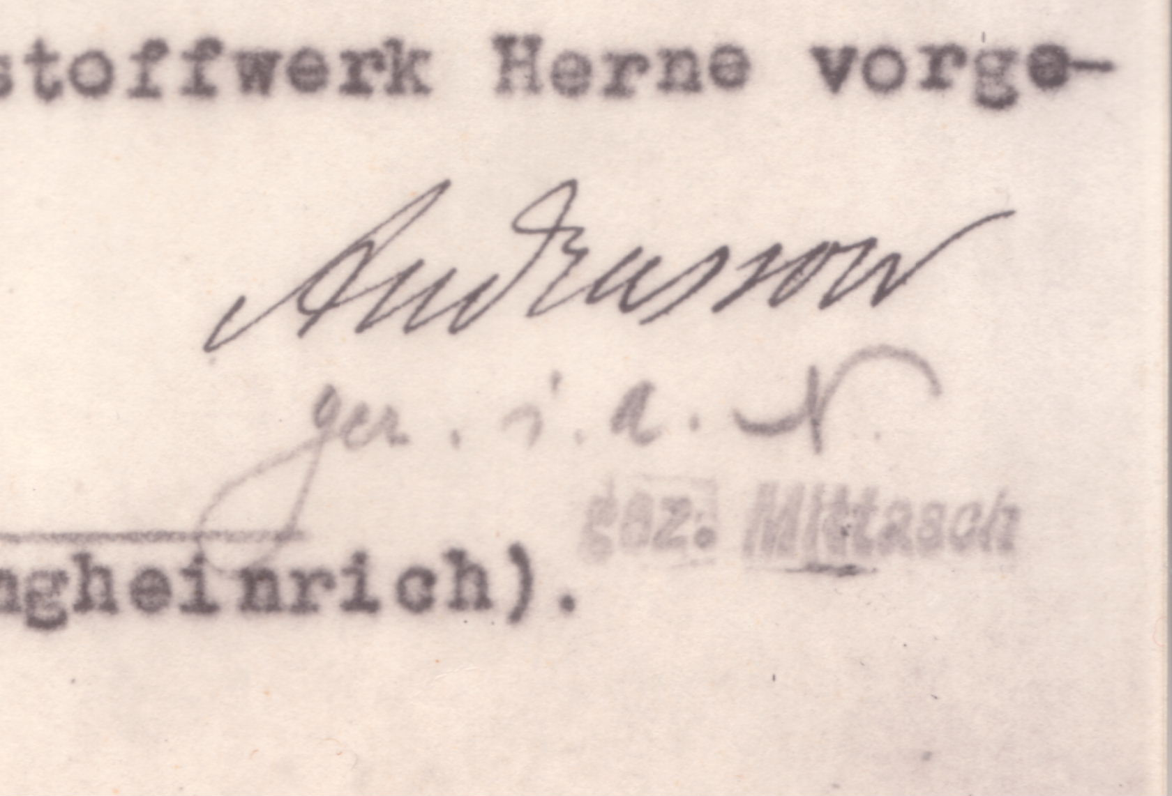 Leonid Andrussow's signature on a report form 25.4.1931